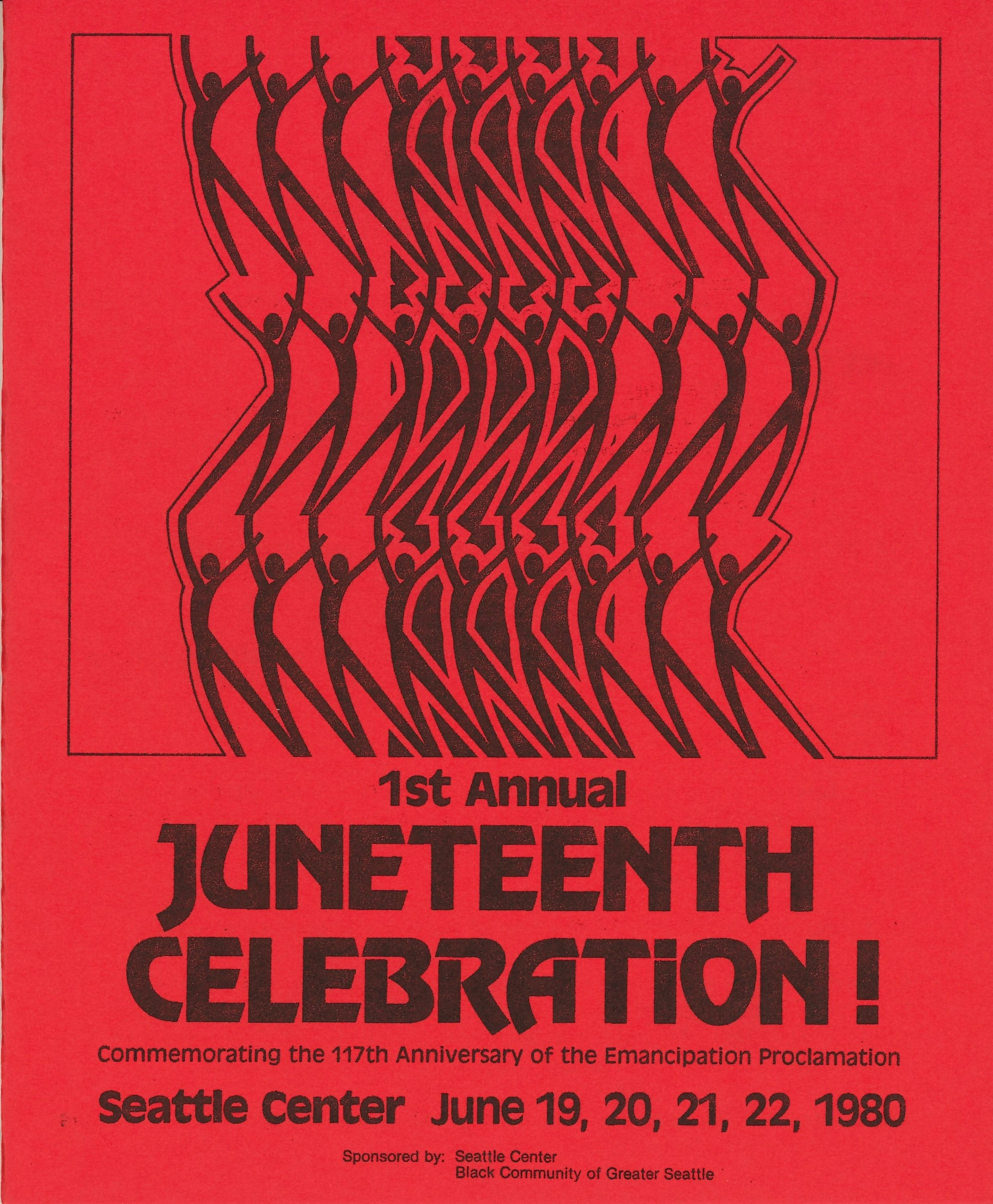 Cover of program for Juneteenth celebration at Seattle Center, 1980